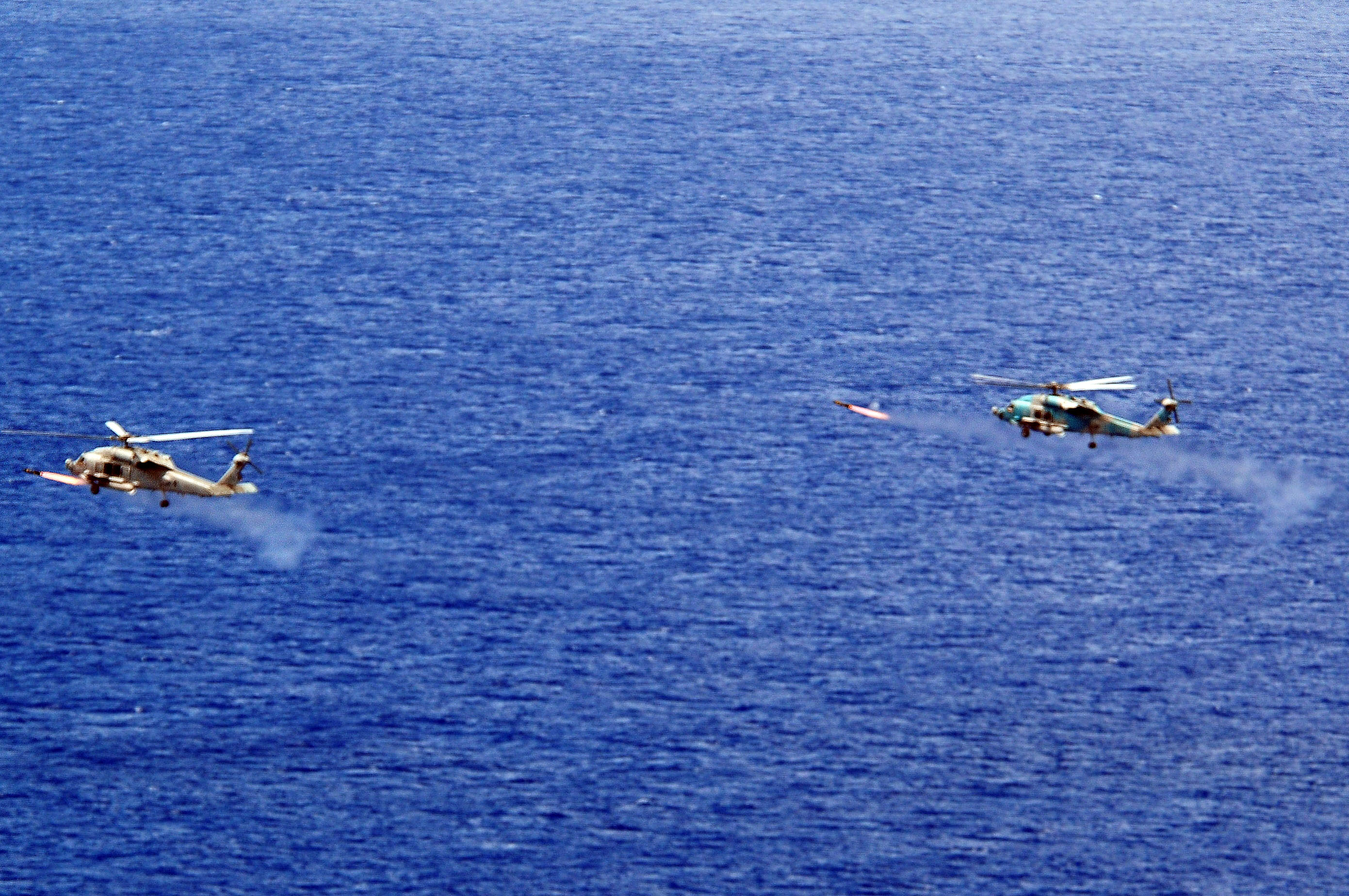 PACIFIC OCEAN (Aug. 30, 2009) Two HH-60H Sea Hawk helicopters, assigned to the Indians of Helicopter Anti-Submarine Squadron (HS 6), fire live AGM-114 Hellfire missiles at Oki Daito Jima range. HS-6 is a part of Carrier Air Wing Eleven (CVW-11) and is embarked aboard the aircraft carrier USS Nimitz (CVN 68). (U.S. Navy photo by Mass Communication Specialist 2nd Class Jason Graham/Released)